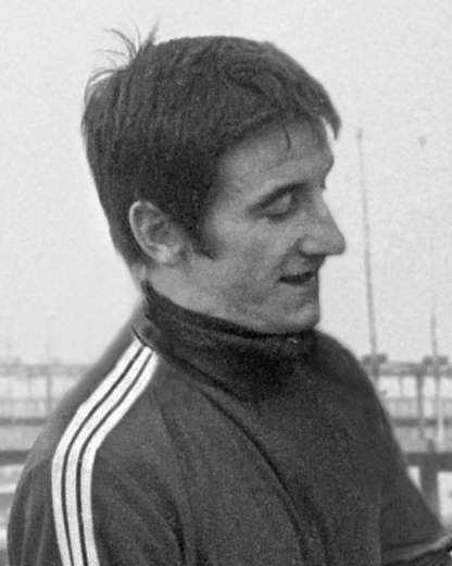 Hannes Löhr from the football club 1. FC Köln during training on the beach in Scheveningen. In the background the pier.